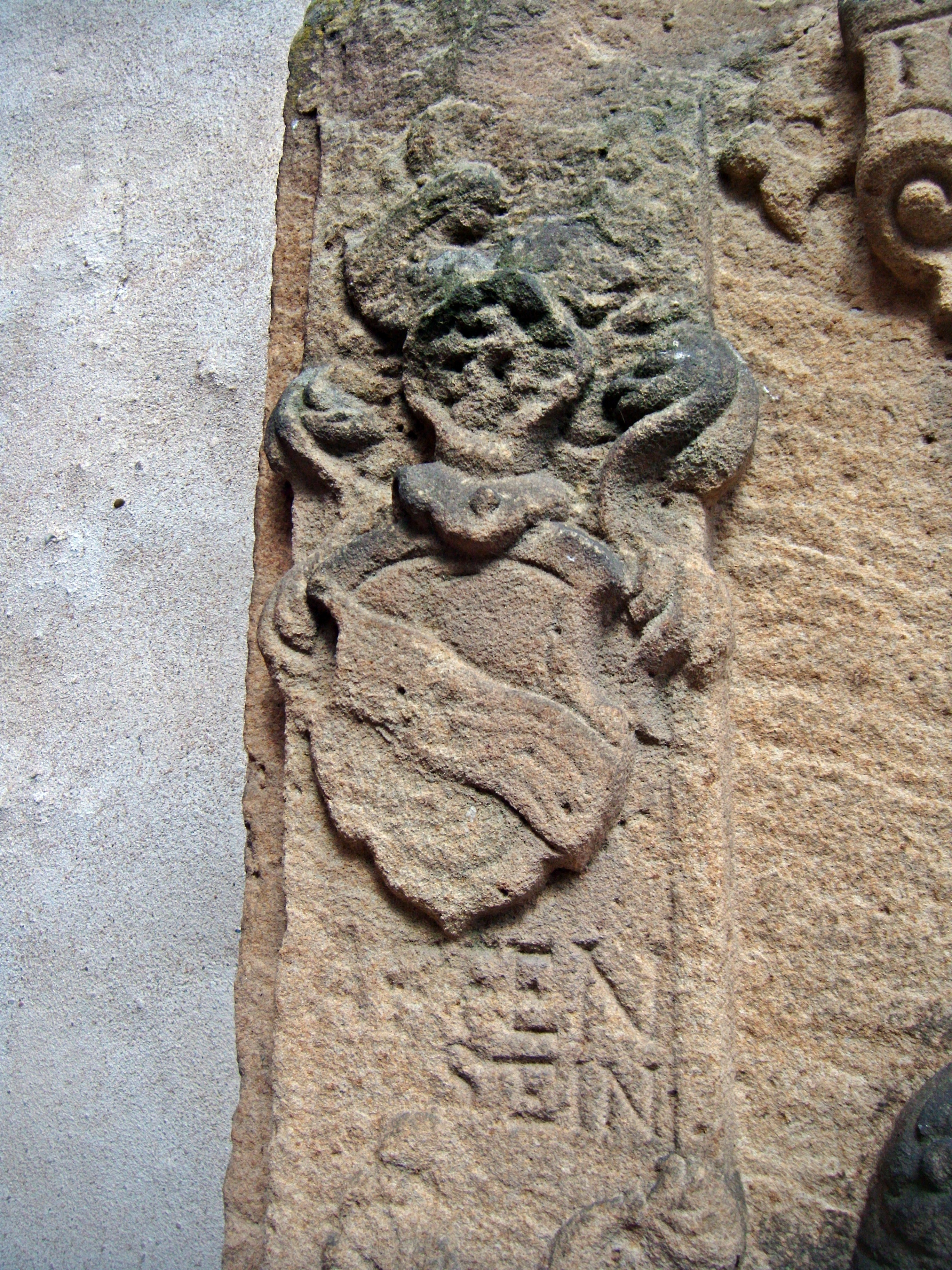 Wappen der pfälzer Adelsfamilie von Affenstein, von Epitaph, Außenseite der Pfarrkirche St. Ulrich, Deidesheim